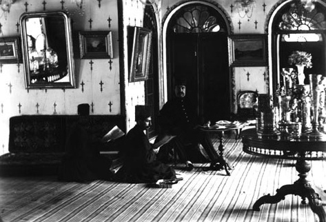 Antoin Sevruguin's historical Iran photographs.